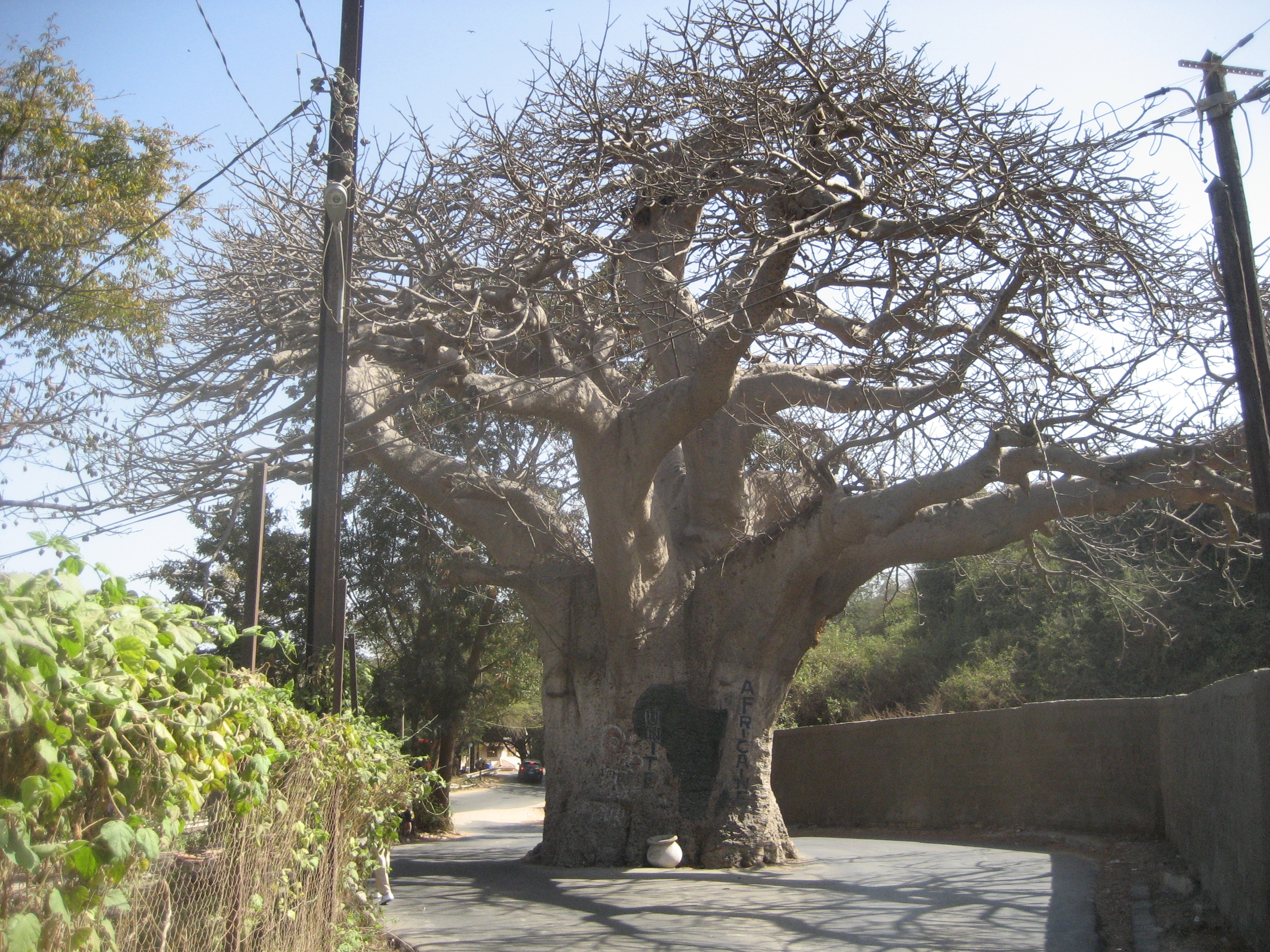 Baobab tree in the middle of the road, Route de la Corniche Estate, Dakar (Senegal)